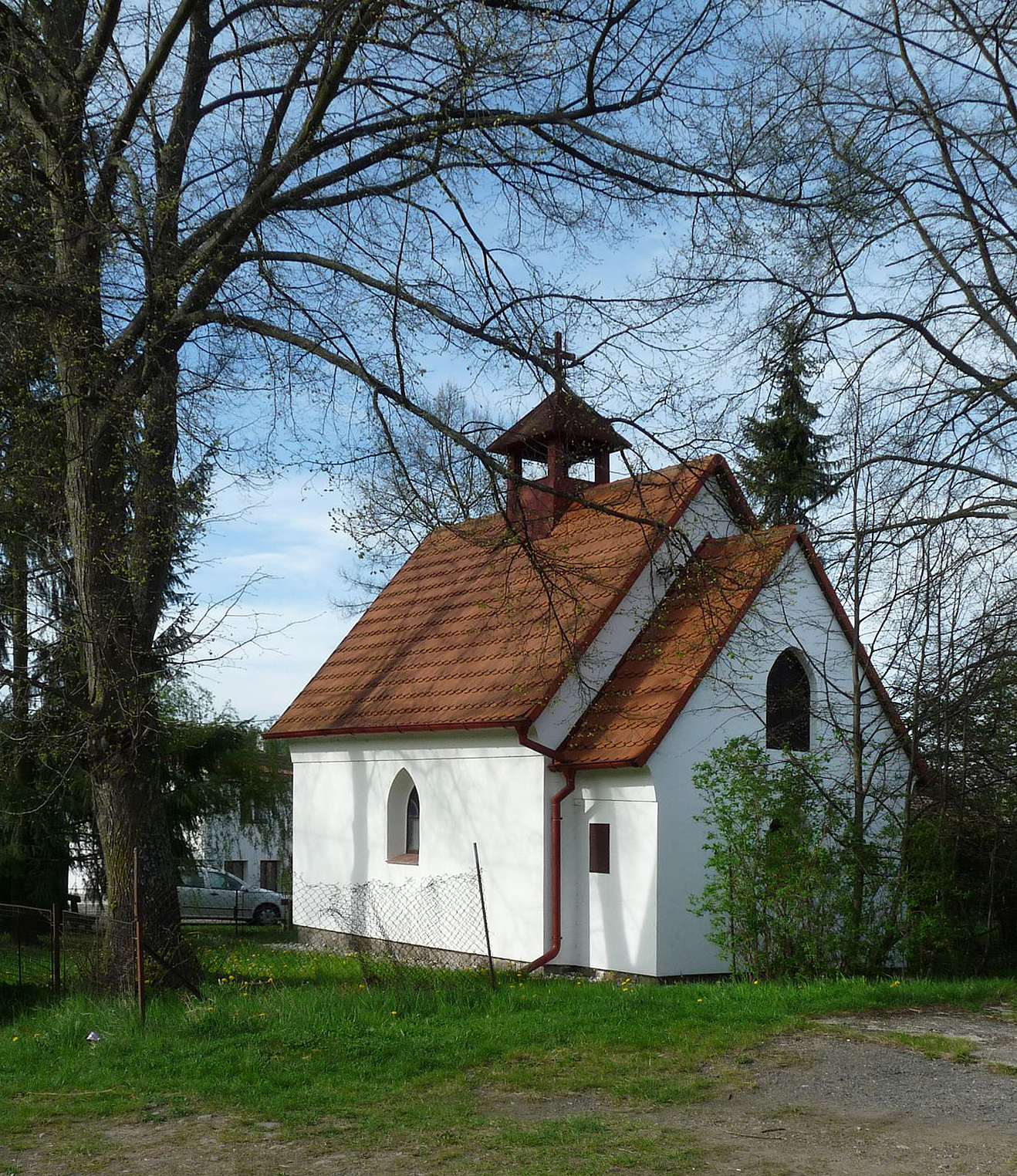 Chapel in the village of Střeziměř, part of the town of Klatovy, Klatovy District, Czech Republic